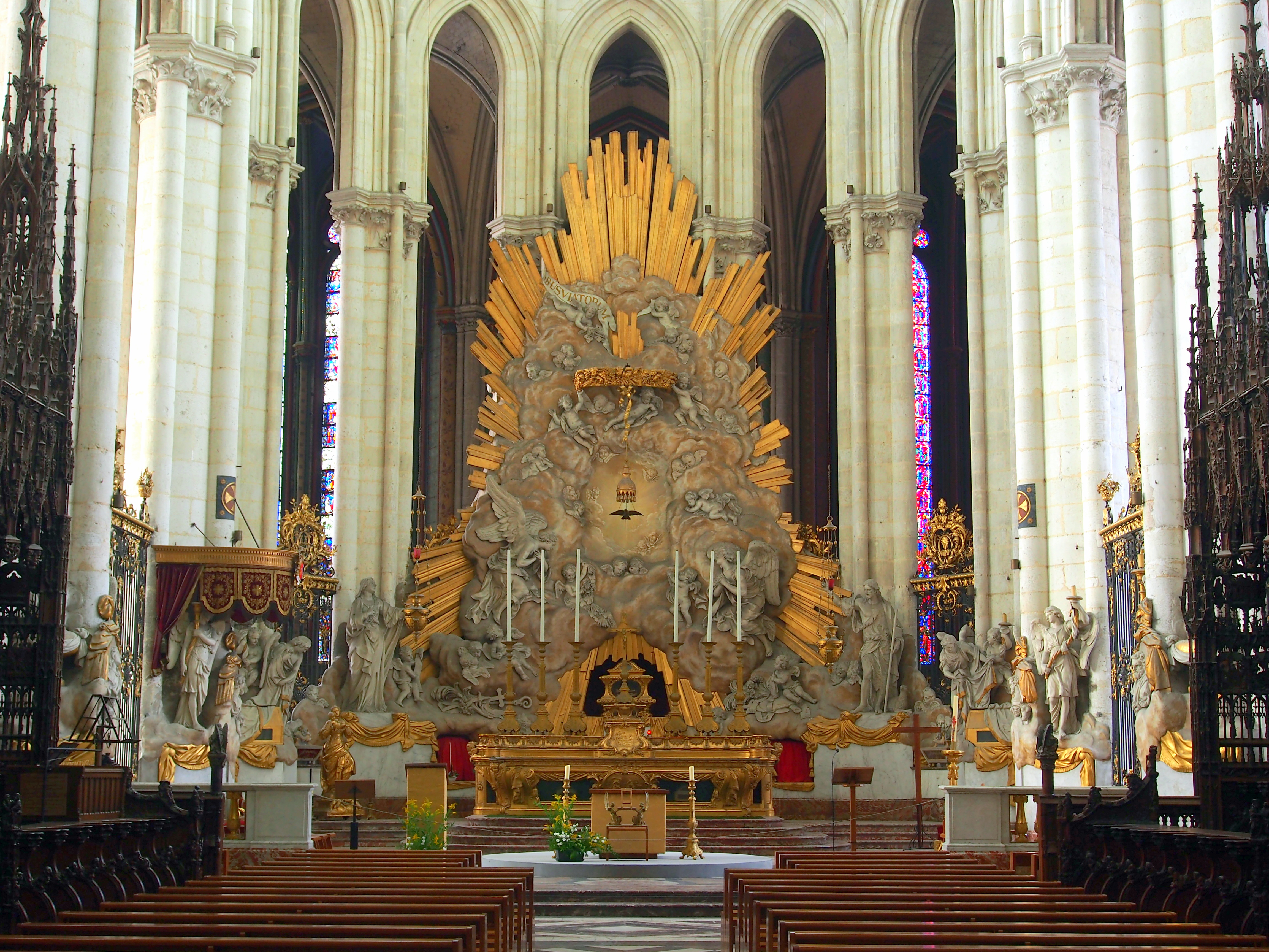 Altar in Amiens Cathedral